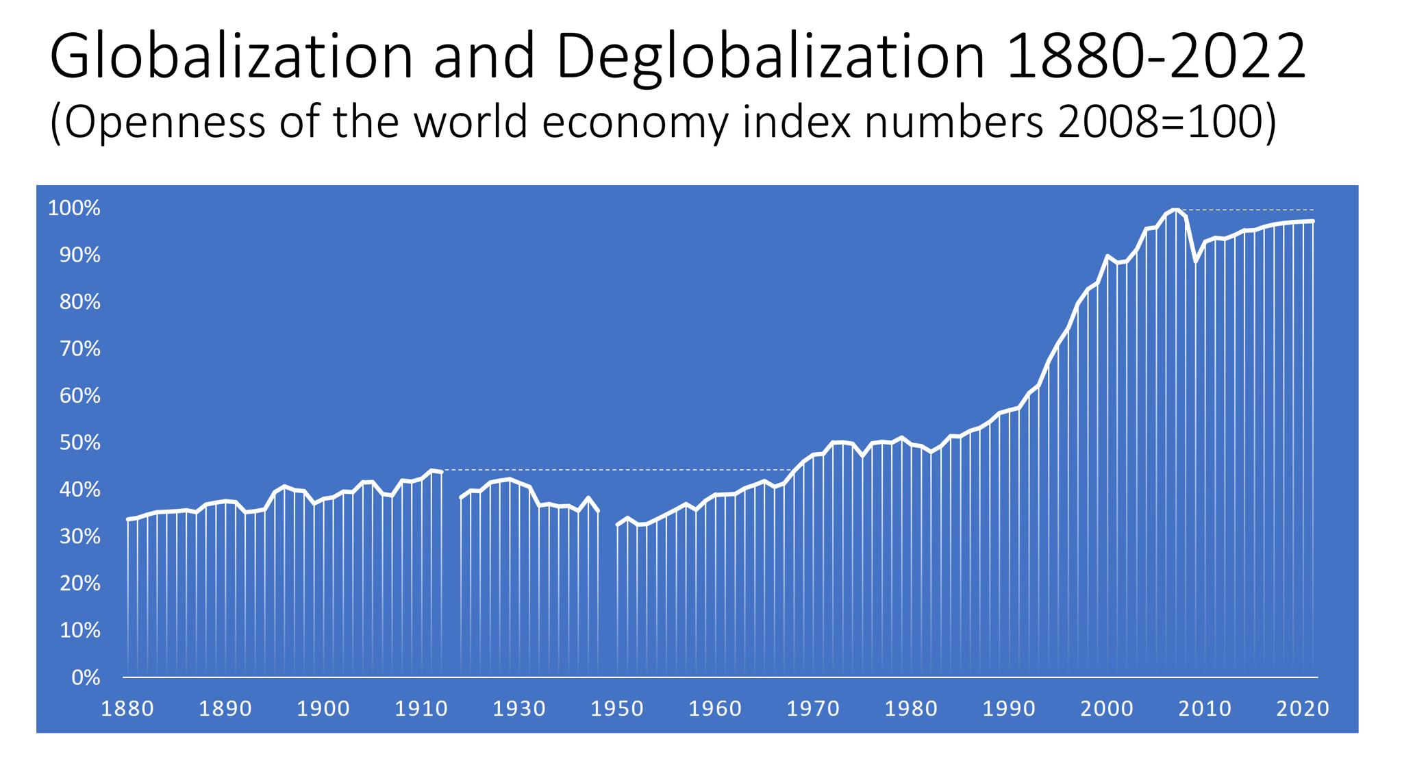 The graph shows two periods of deglobalization (1930s and 2010s) alongs side the trend increase inglobalization since 1880